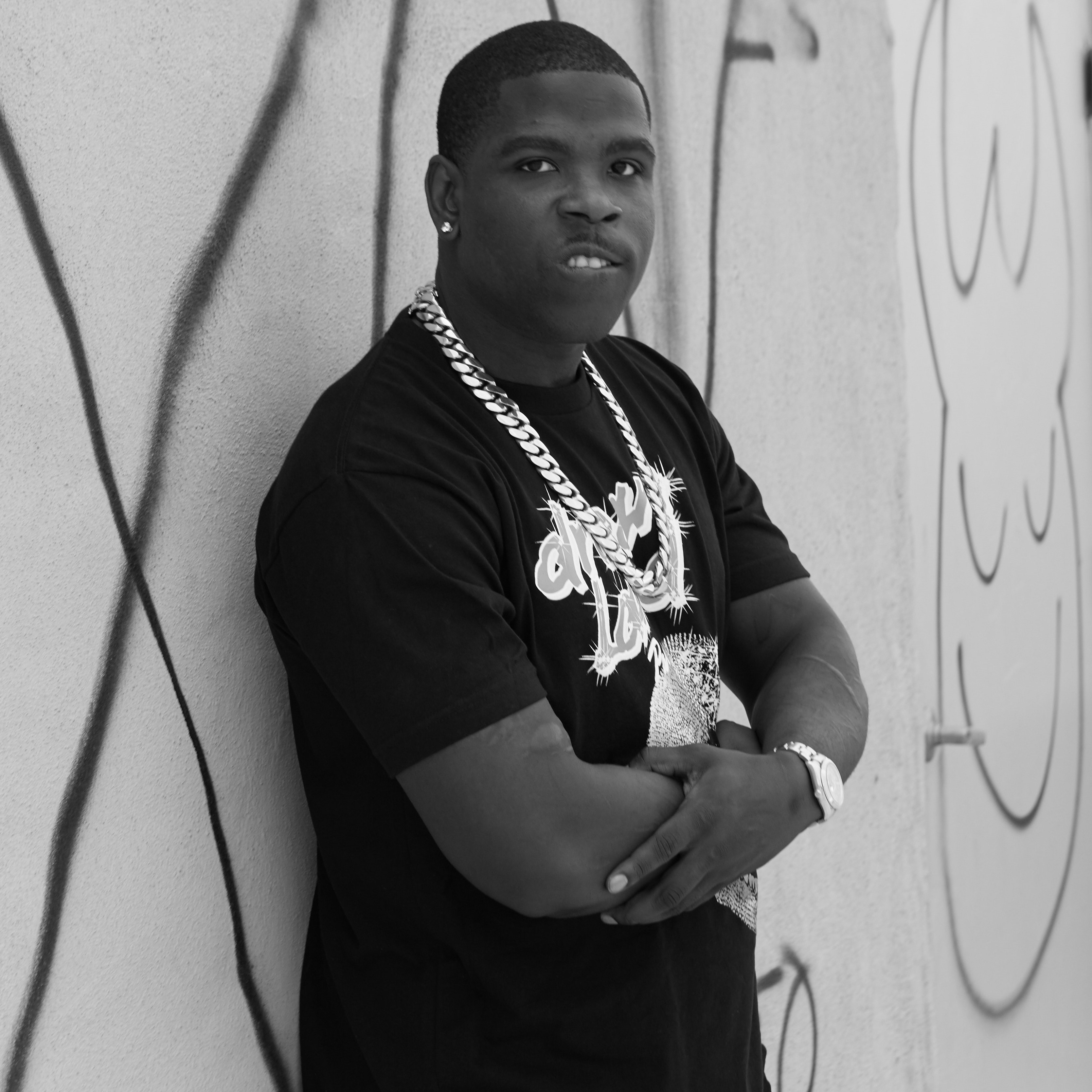 Casanova